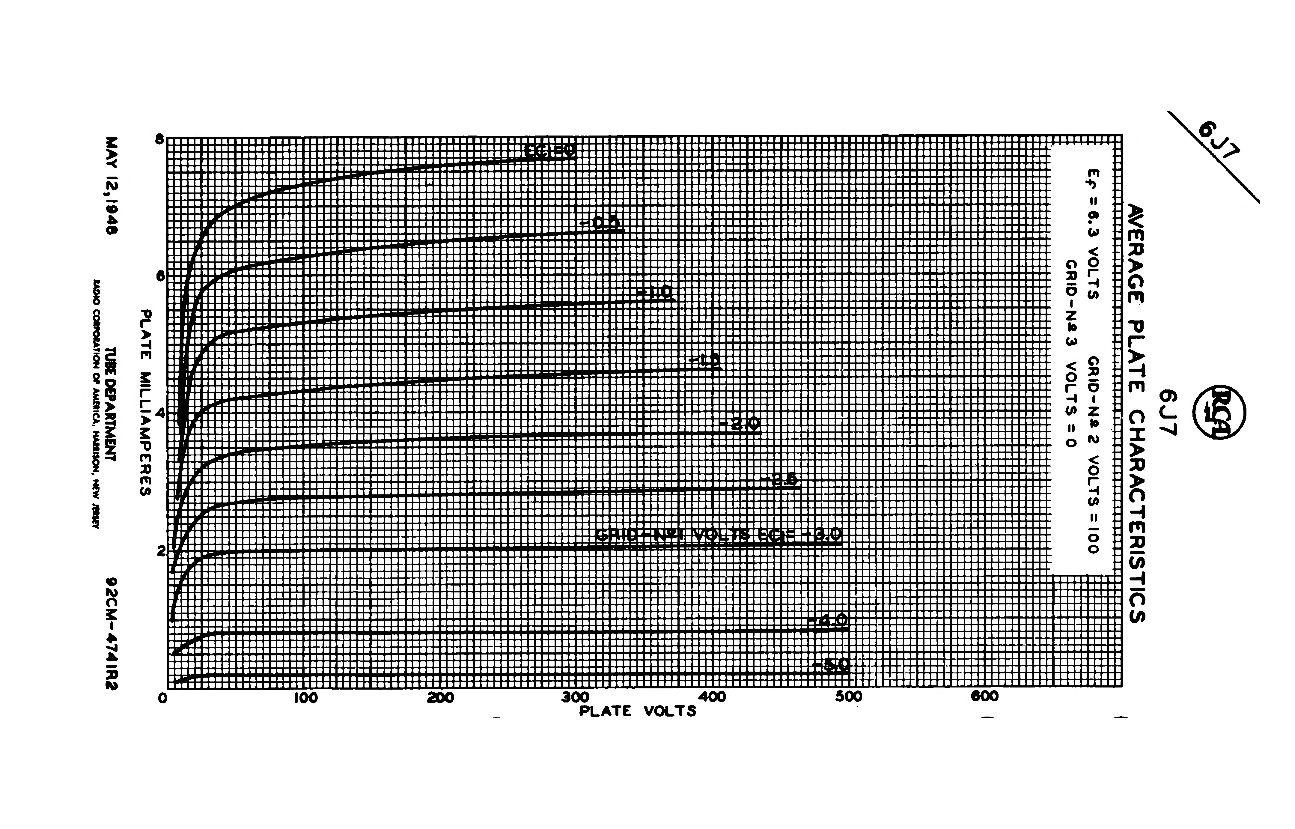 6J7 pentode anode characteristics